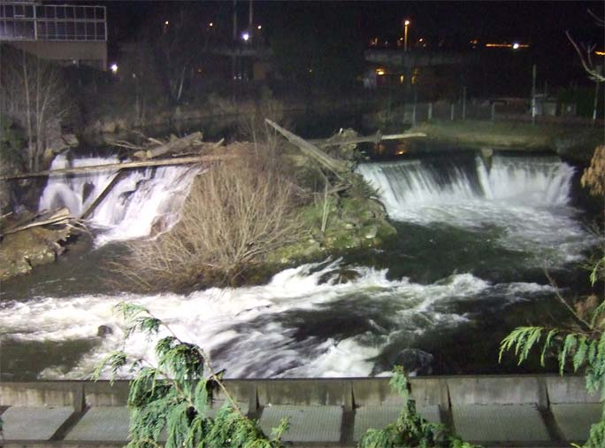 Upper Tumwater Falls at night from the deck of Falls Terrace restaurant, Jan. 2007. AMP